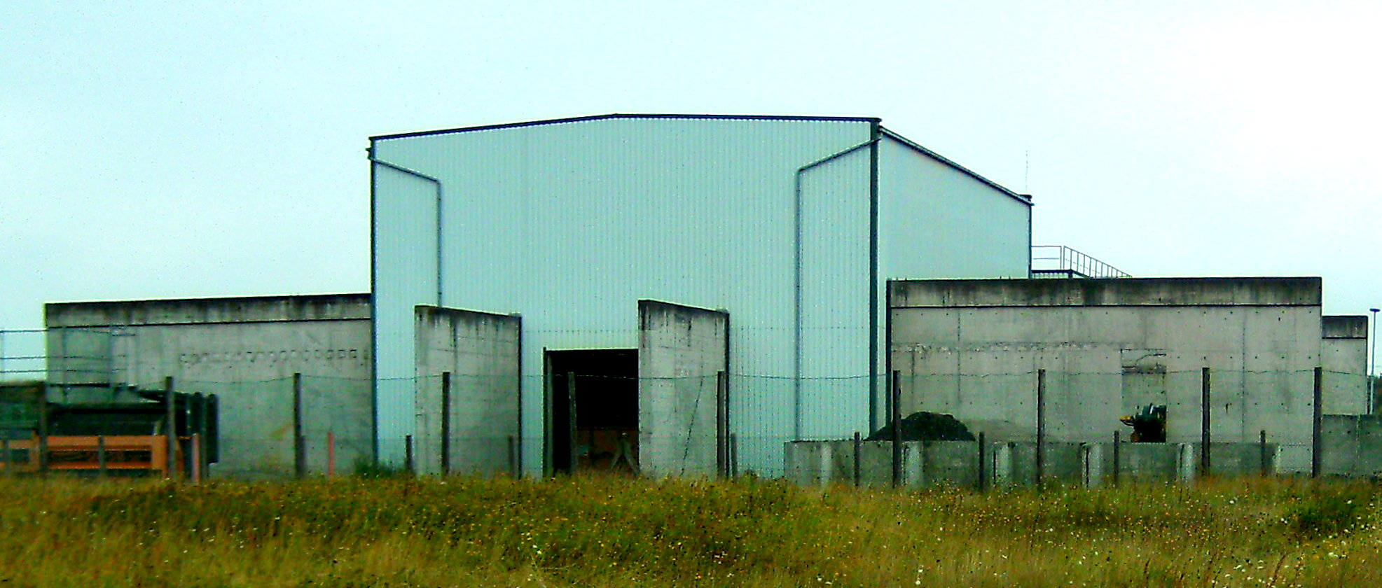 Hall of canceled HVDC back-station seen from South. In the bay, it was planned to install the smoothing of the static inverter. The door in the bay may have been installed later. Note the transportation way running from the substation to the hall. Building the static inverter was given up after German reunifaction, as one decided to synchronize the power grids of former East and West Germany and to interconnect them directly. The hall is today part of a recycling yard.